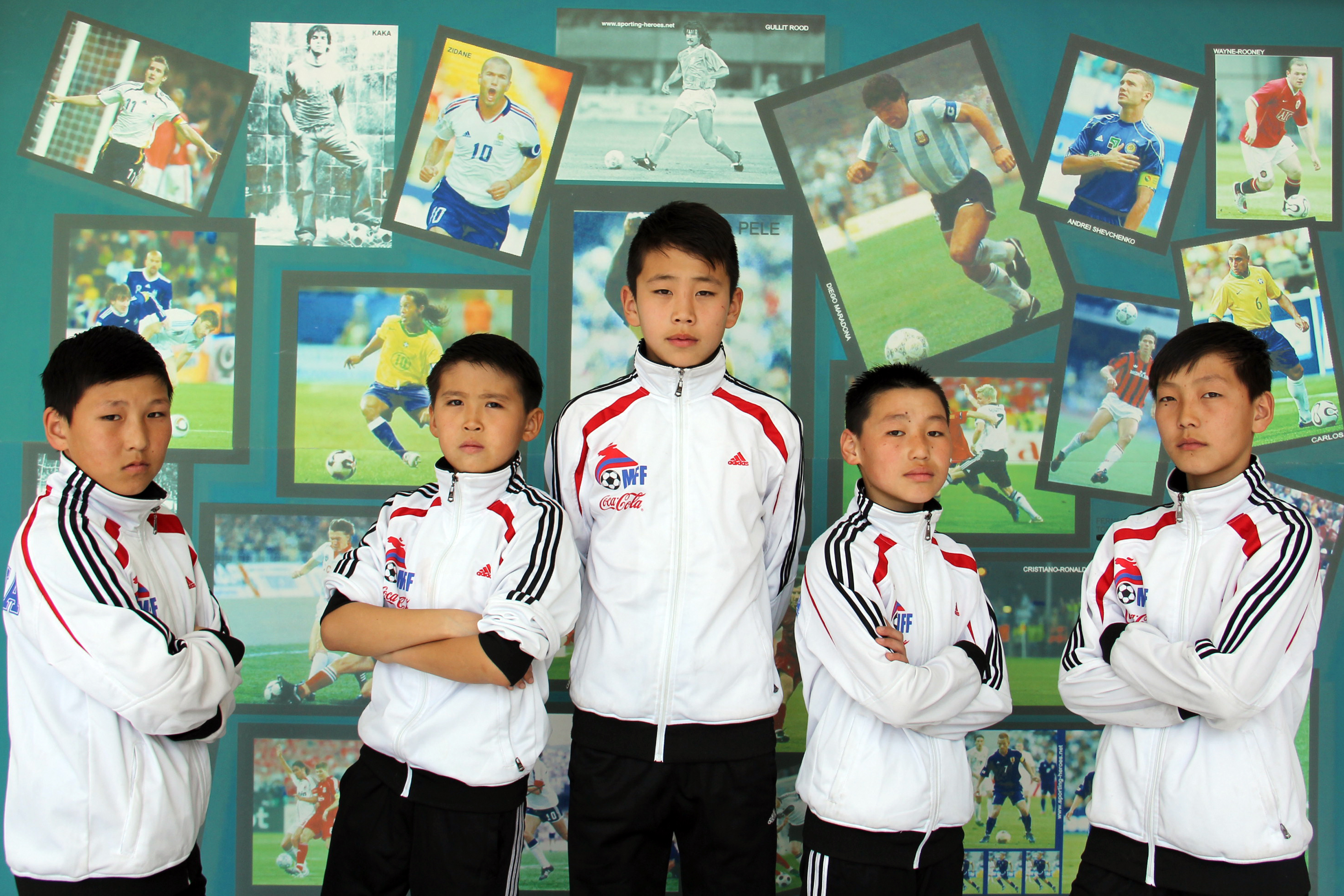 2013.04.02. Монгол Улсын 13 хүртэлх насны шигшээ багийн бүрэлдэхүүнд багтсан "ДМЮ" клүбийн таван тоглогч